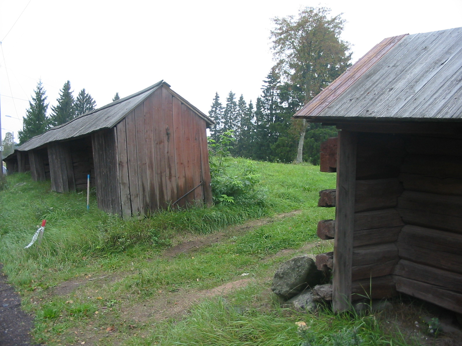 Old churchyard of Loimaa, Finland, an abandoned cemetery